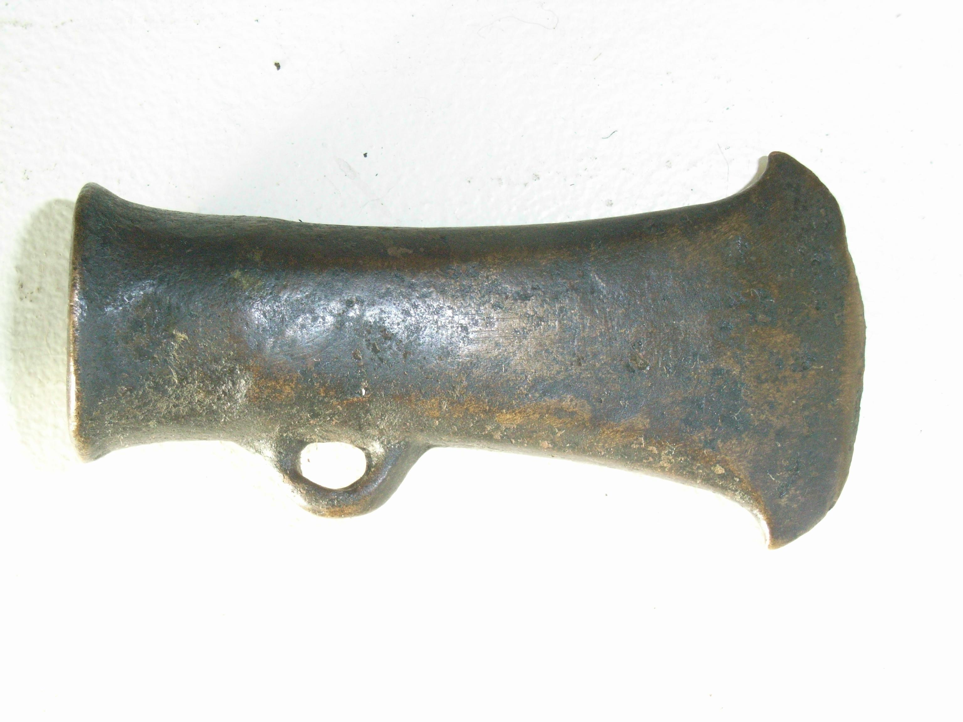 Belfast Natural Hiistory Society Bronze Age Axe.Grainger collection [1]